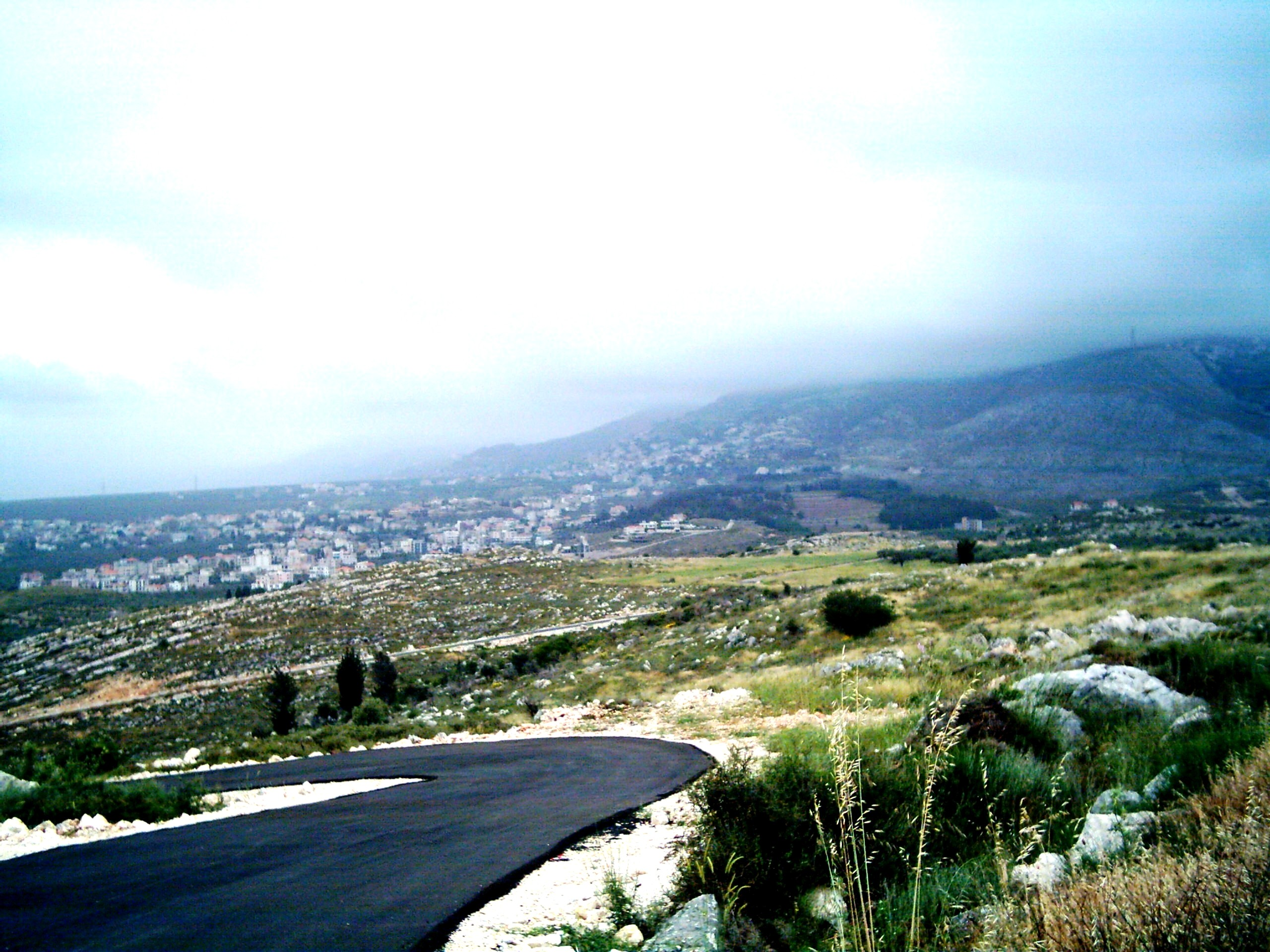 The probable place of the historical battle, which took place in year 694. That period was poorly documented with a single manuscript about the history of Amioun.